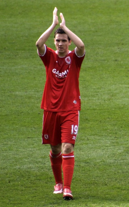 English football player Stewart Downing after Middlesborough match.